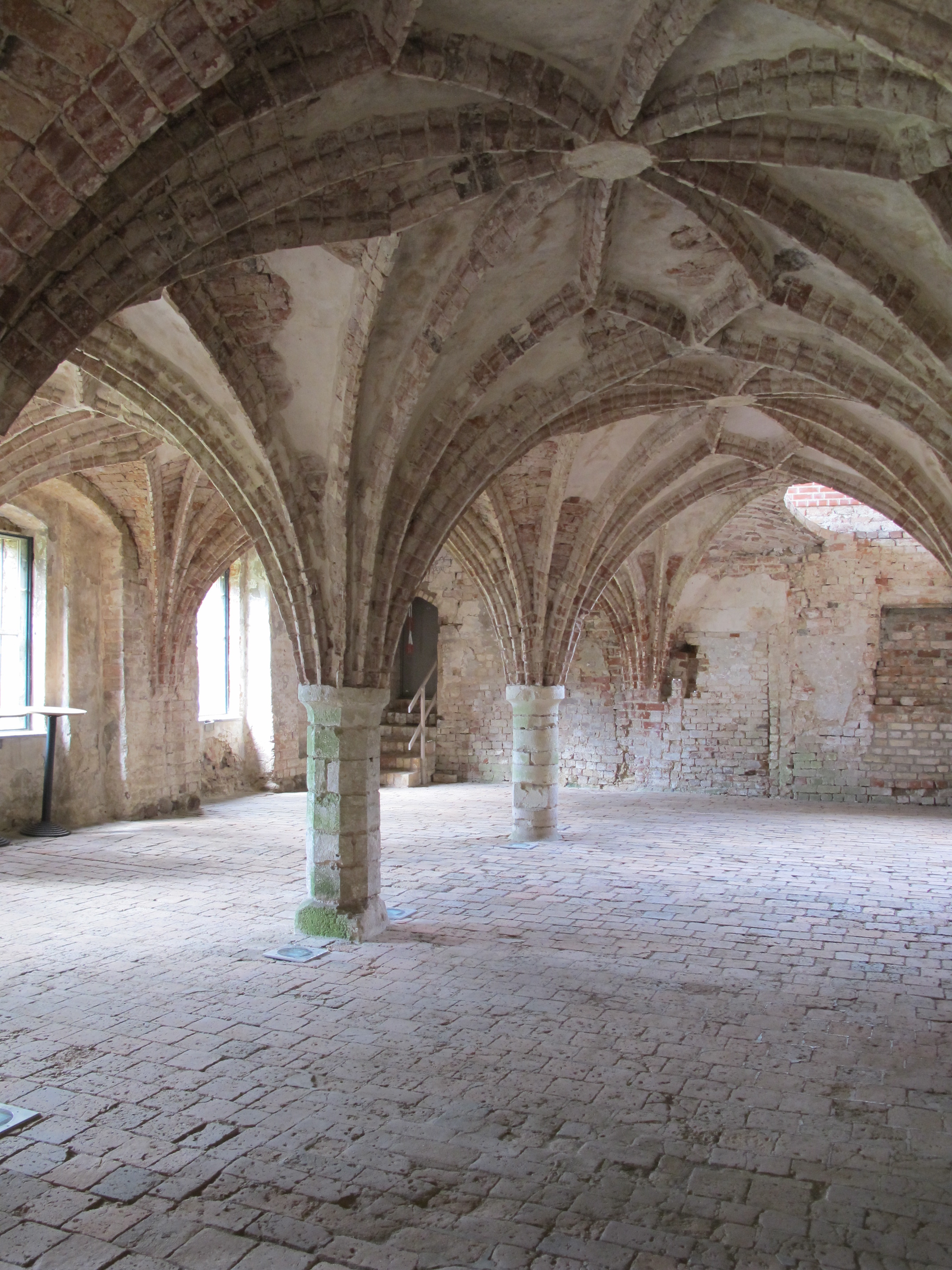 Refectory of Kloster Friedland ruin, Germany. View to the northwest.